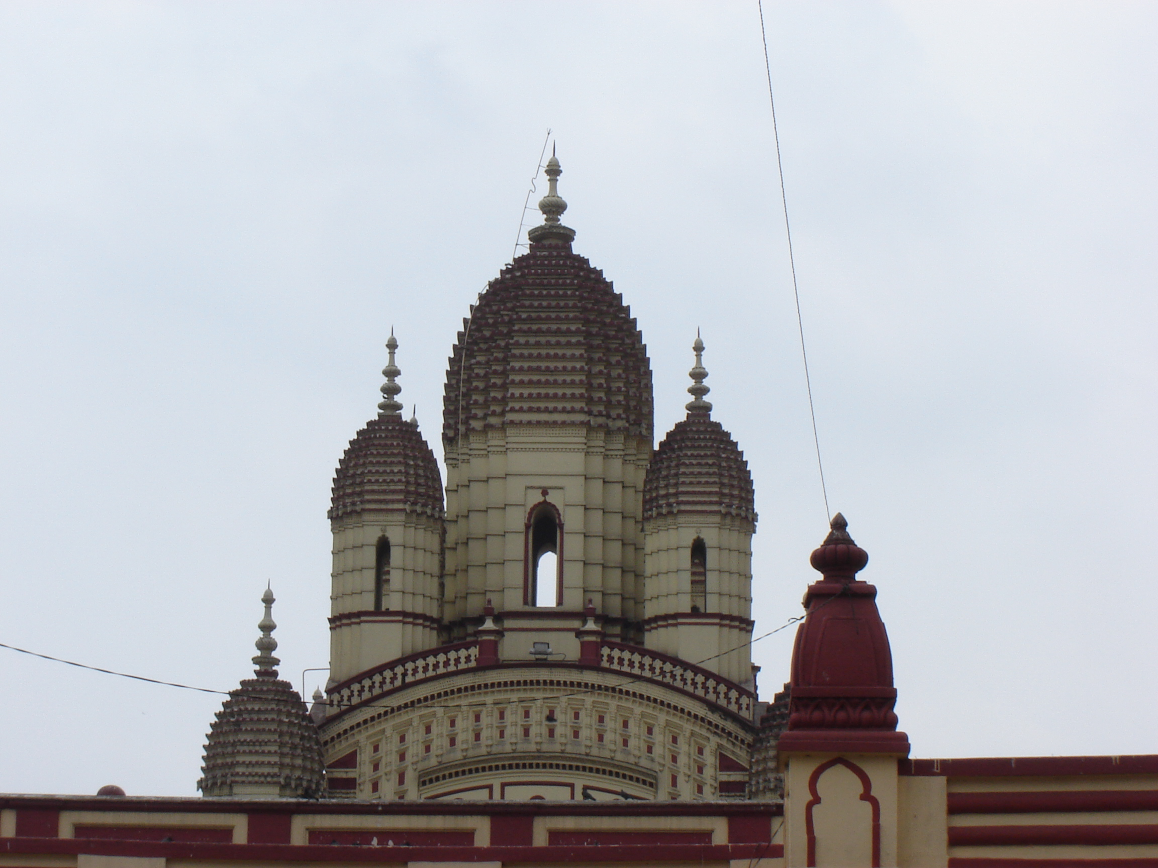 the spires of Dakshinswar